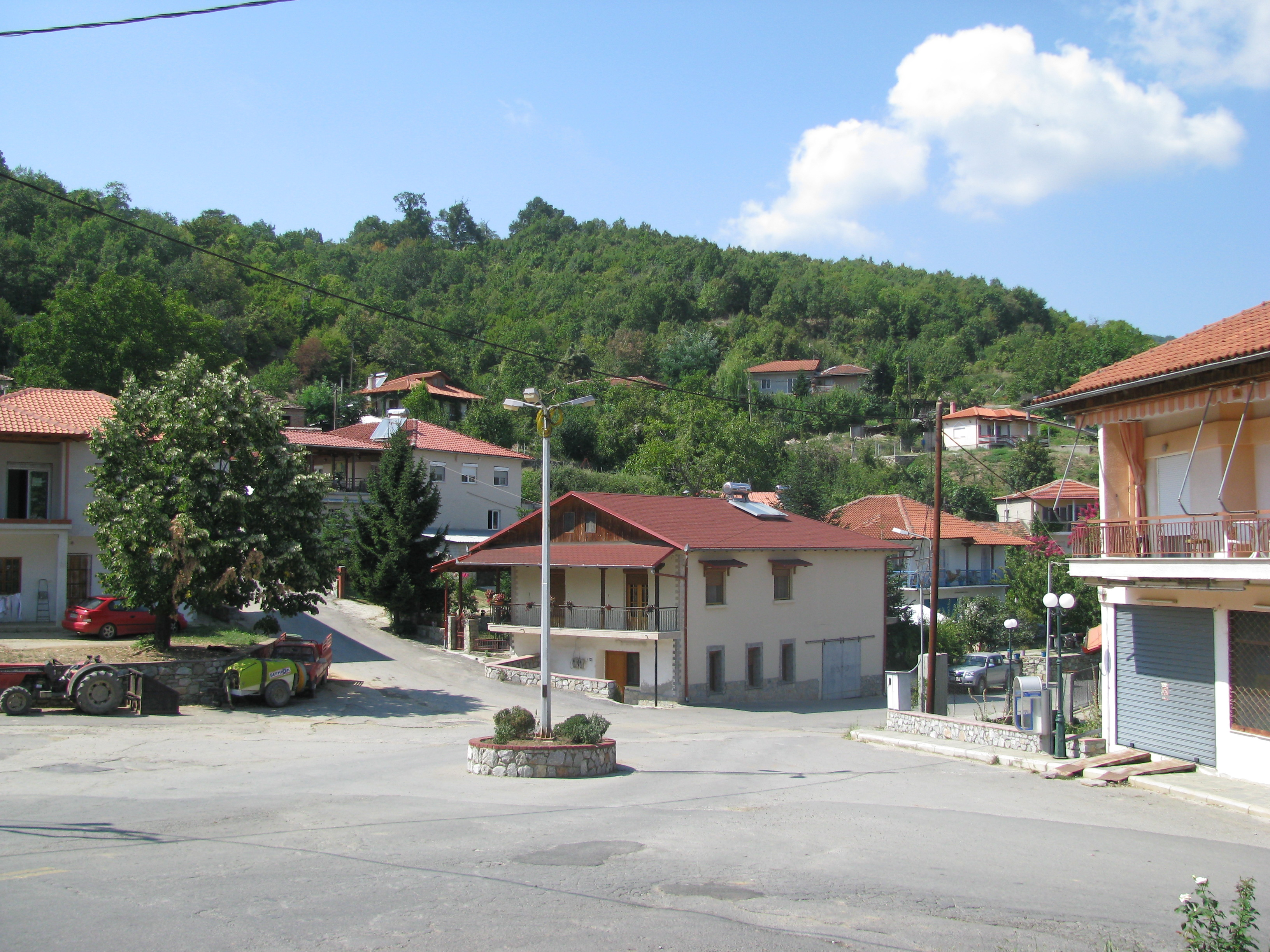 Centre of Oshliani or Agia Fotini, Edessa, Greece